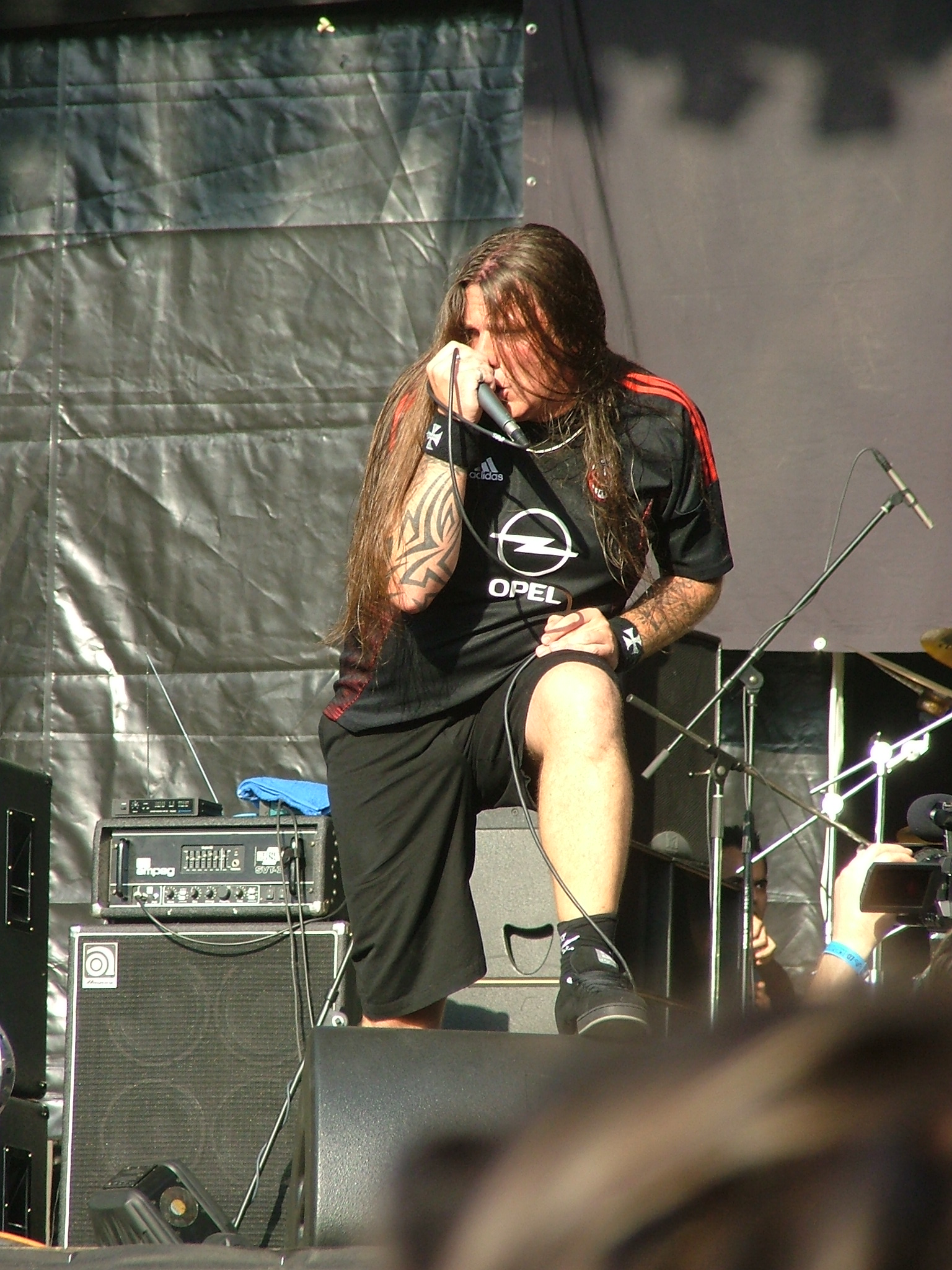 Italian dark metal band Graveworm at the Metalcamp in Tolmin